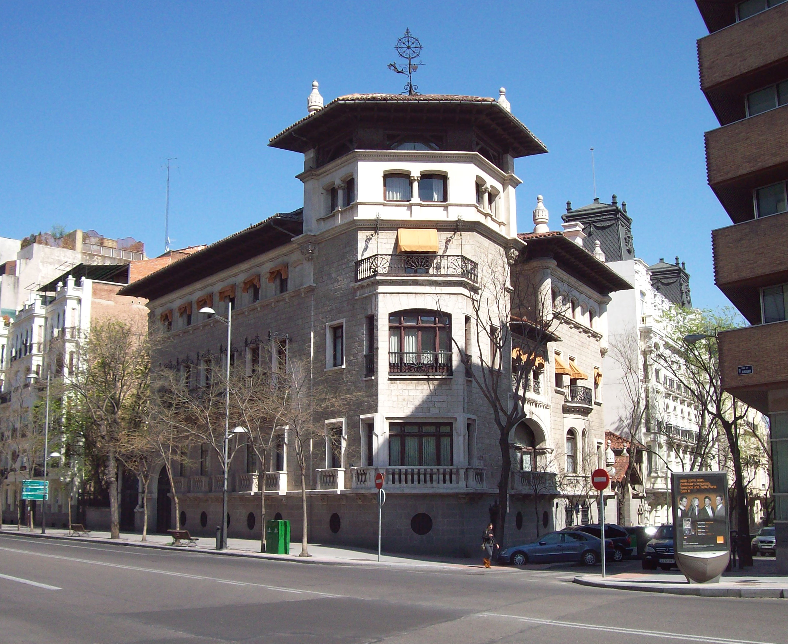 View, from the south-west angle, of Casa Garay, a building at 42 Calle de Almagro (street, Chamberí district) in Madrid (Spain).